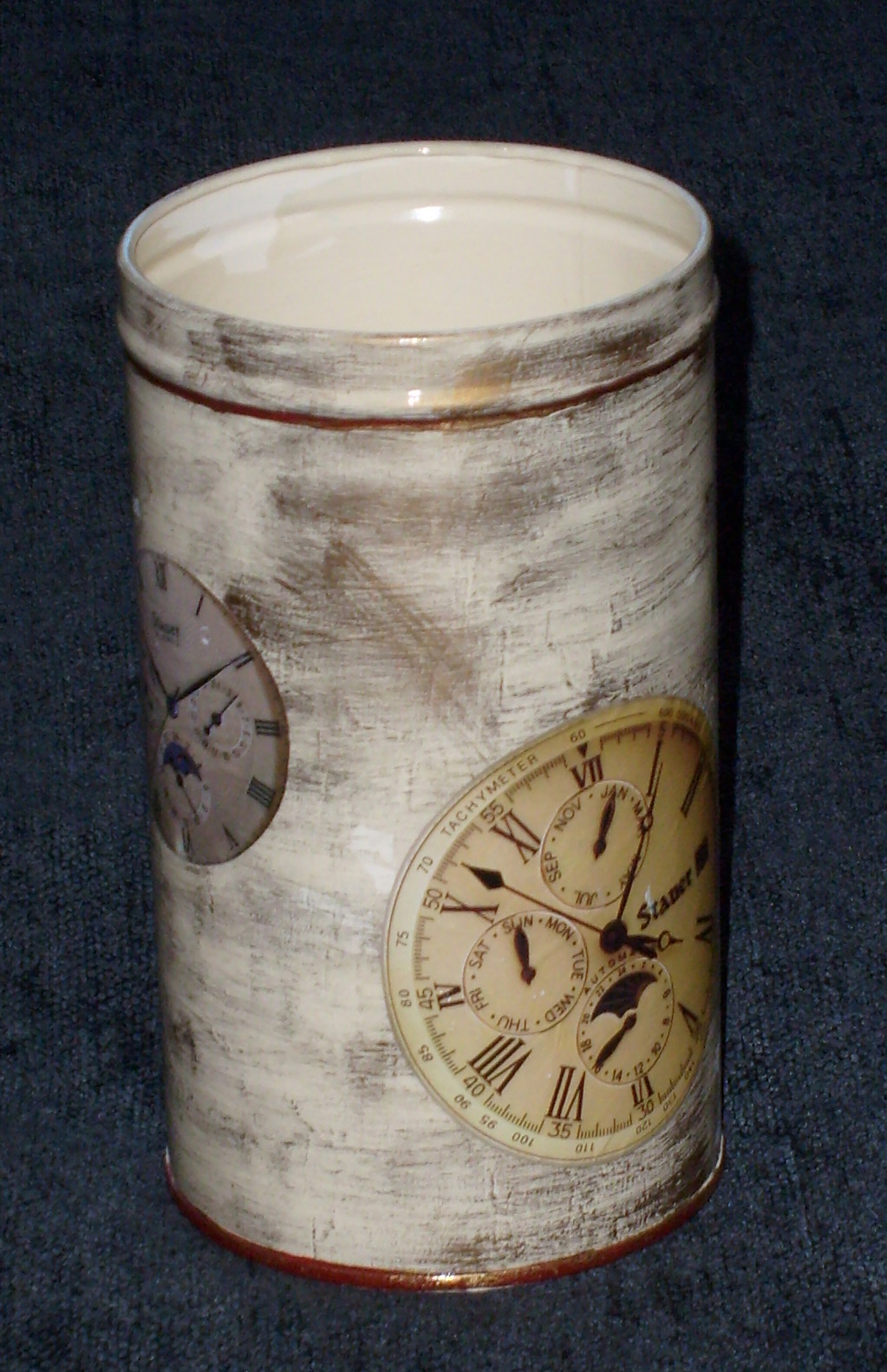 Decoupage can: steel cookie can decorated in acrylic paint and paper decoupage. Original design.